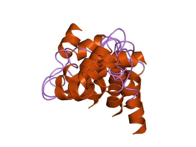 Cartoon representation of the molecular structure of protein registered with 1g92 code.